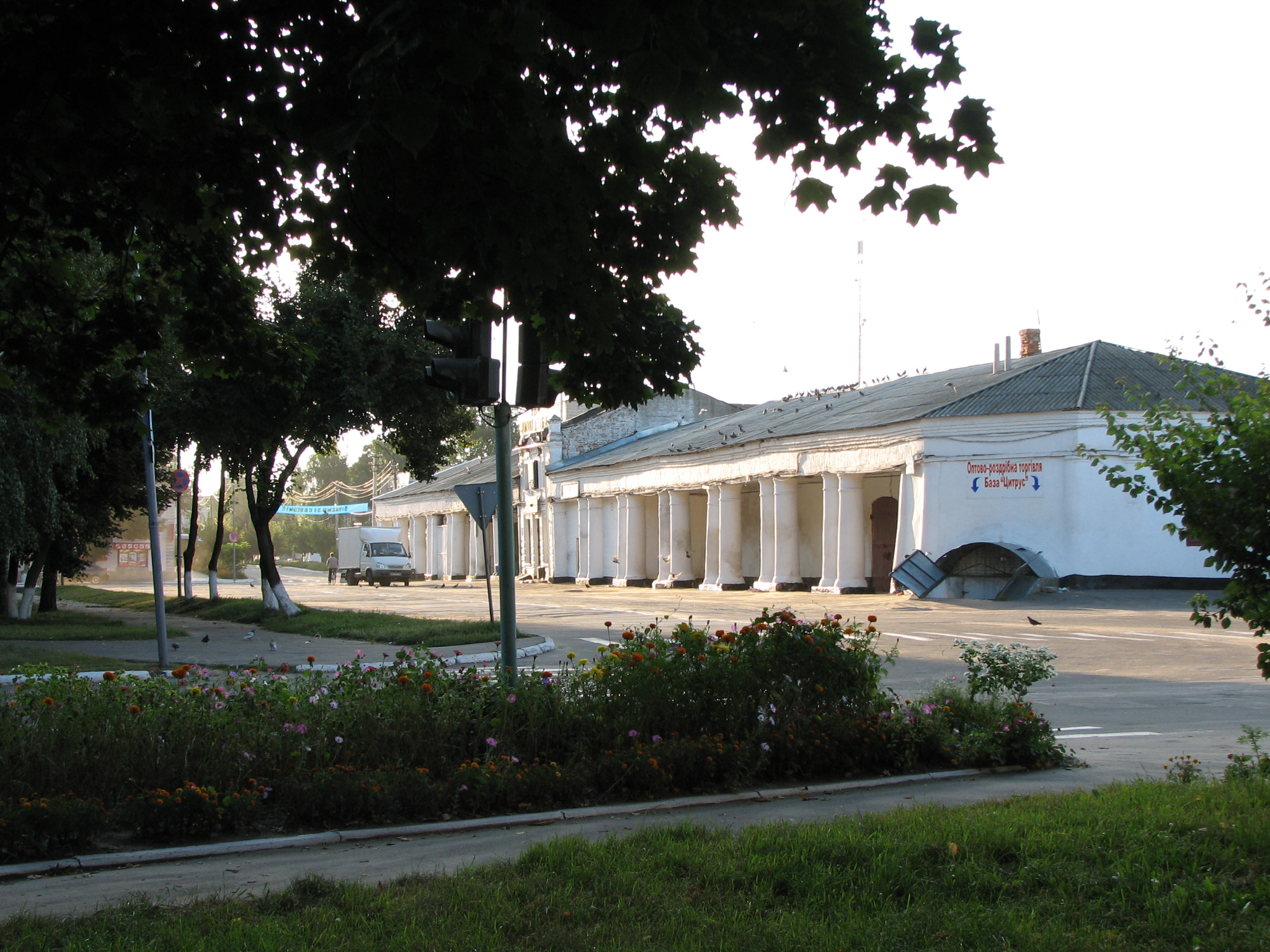 Market (1868) in Lebedyn, Sumy Oblast, Ukraine